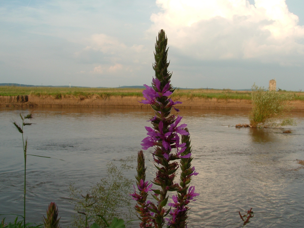 the Sajó-river's shore in Sajószentpéter, Hungary, EU